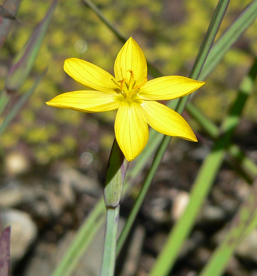 Sisyrinchium californicum at the University of California Botanical Garden, Berkeley, California